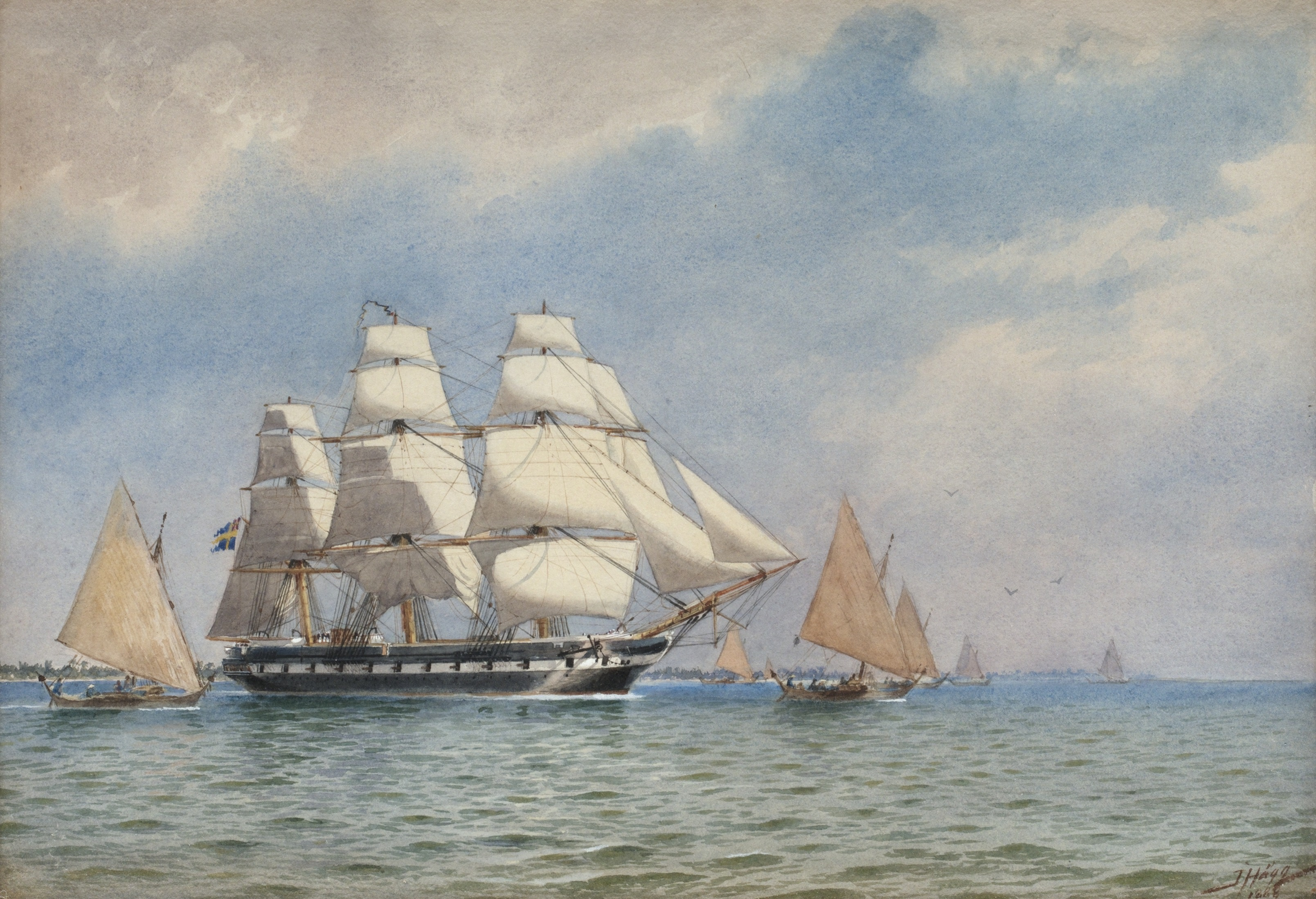 The Vanadis approaching the island of Jaluit i the South Seas 1884label QS:Lsv,"Vanadis under insegling till ön Jaluit i Söderhavet 1884" label QS:Len,"The Vanadis approaching the island of Jaluit i the South Seas 1884"